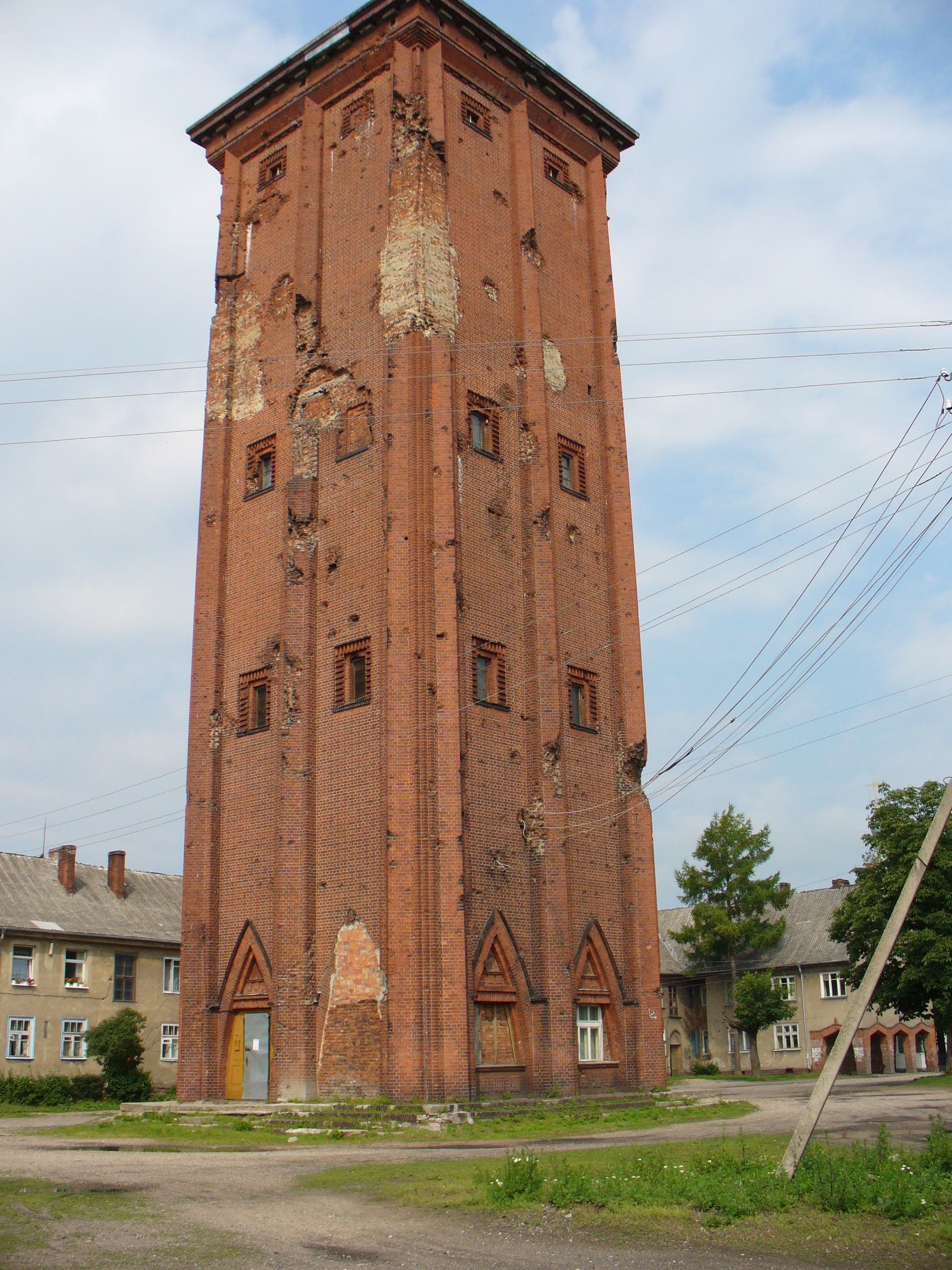 Water tower Nesterov